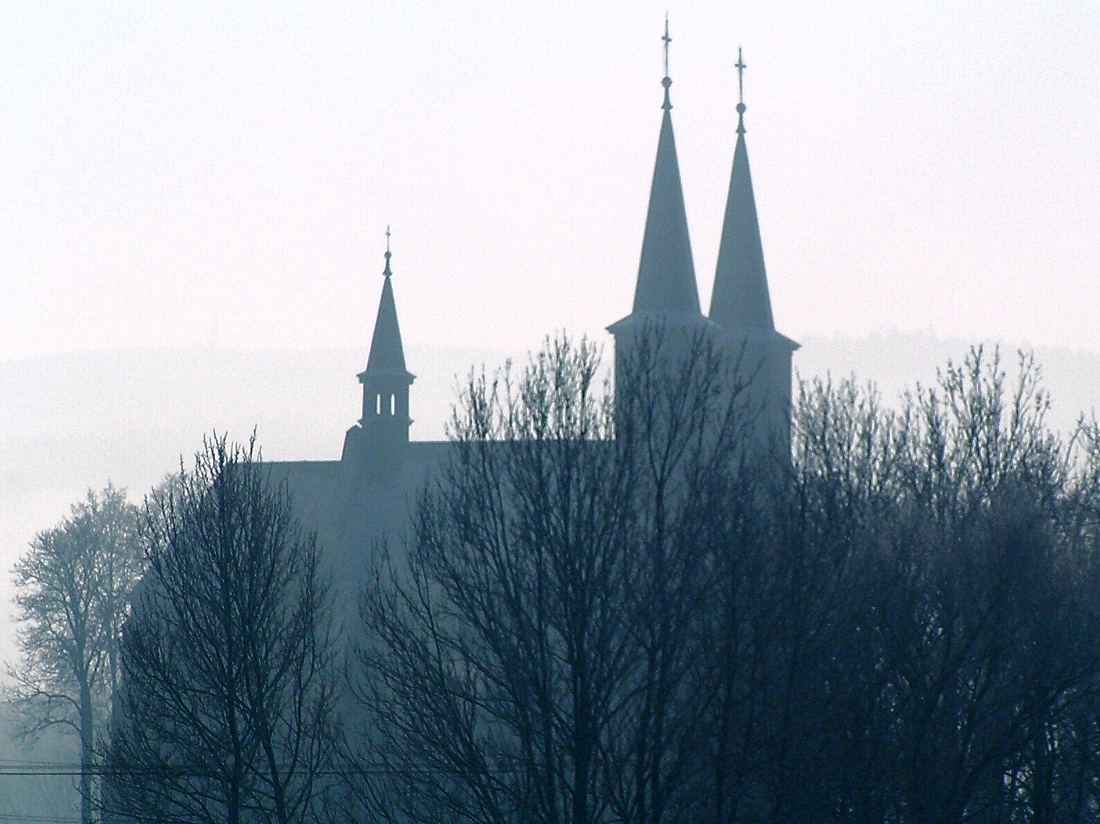 Parish Church of St. Martin the Bishop in Łużna